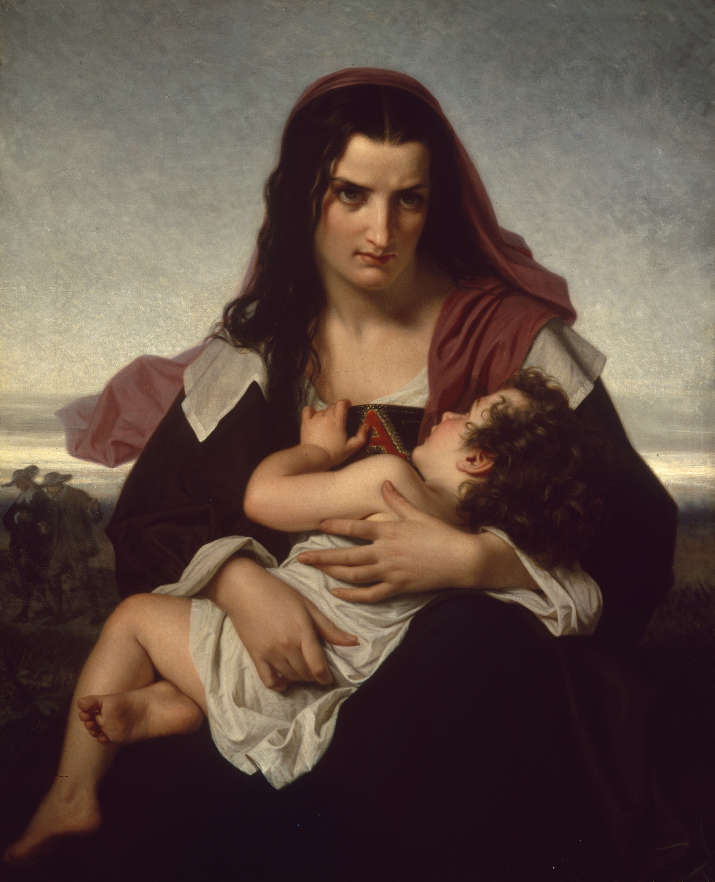 Nathaniel Hawthorne, author of "The Scarlet Letter" (1850), regarded this painting, which William Walters commissioned from Merle in 1859, as the finest illustration of his novel. Set in Puritan Boston, the novel relates how Hester Prynne was publicly disgraced and condemned to wear a scarlet letter "A" for adultery. Arthur Dimmesdale, the minister who fathered her child, and Roger Chillingworth, Hester's elderly husband, appear in the background. Merle's canvas reflects some of the same 19th-century historical interest in the Puritans as Hawthorne's book, a fascination that reached its peak with the establishment of Thanksgiving as a national holiday in 1863. By depicting Hester and her daughter, Pearl, in a pose that recalls that of the Madonna and Child, Merle underlines "The Scarlet Letter"'s themes of sin and redemption.